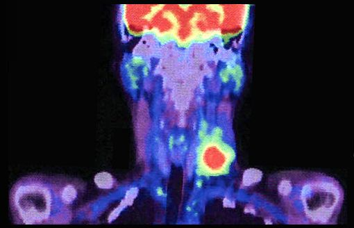 A male patient in his 30's. Left inferior internal jugular node metastases with extranodal invasion, two years after brachytherapy of tongue cancer. PET-CT scanning, 64 minutes after fludeoxyglucose (18F) in the amount of 3.7 MBq/kg was administered. The blood glucose level at the time of the FDG dosage was 108 mg/dl. PET-CT scan shows some fluff around the tumor. The tumor of the left cervix was SUVmax 17.7, with 36 x 37 mm size. In delayed phase, SUVmax was 25.6.